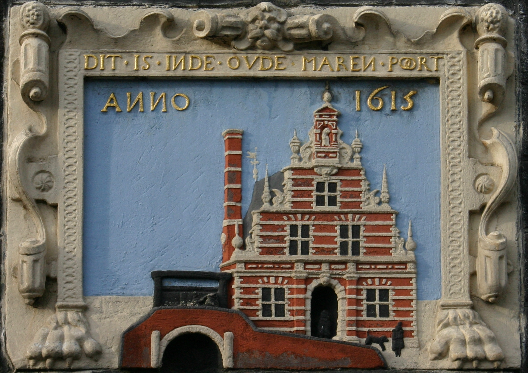 Gable stone of the house Inde Oude Marepoort in Leiden showing the Oude Marepoort city gate.